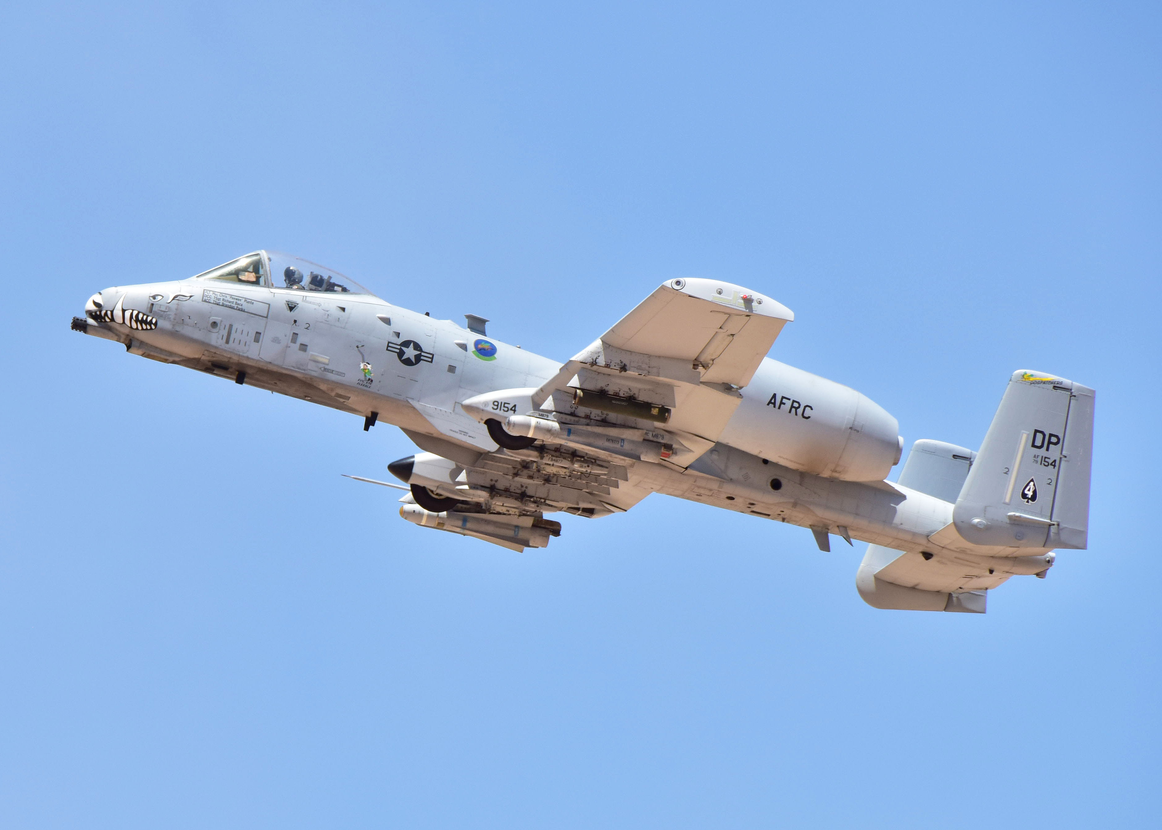 An A-10C Thunderbolt II assigned to the 924th Fighter Group, Davis-Monthan Air Force Base, Ariz., performs a flying maneuver during the 2016 Hawgsmoke competition at Barry M. Goldwater Range, Ariz., June 2, 2016. The first Hawgsmoke competition began in 2002 where A-10 units across the globe competed in ground attacks and target destruction. (U.S. Air Force photo by Tech. Sgt. Louis Vega Jr.)